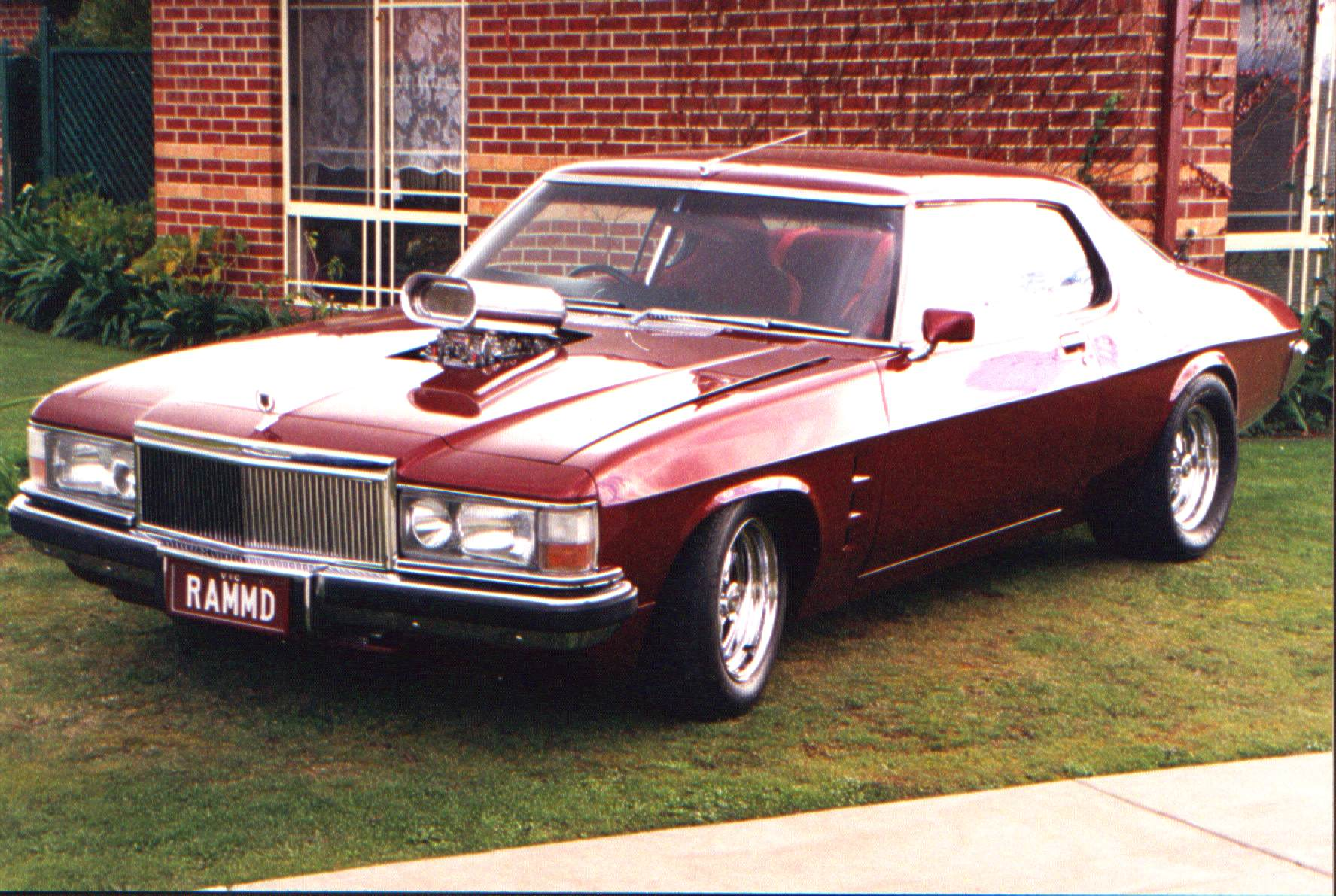 1971–1974 Holden HQ Monaro GTS coupe (with a 1980–1984 Statesman WB Caprice front end conversion), photographed in Australia.